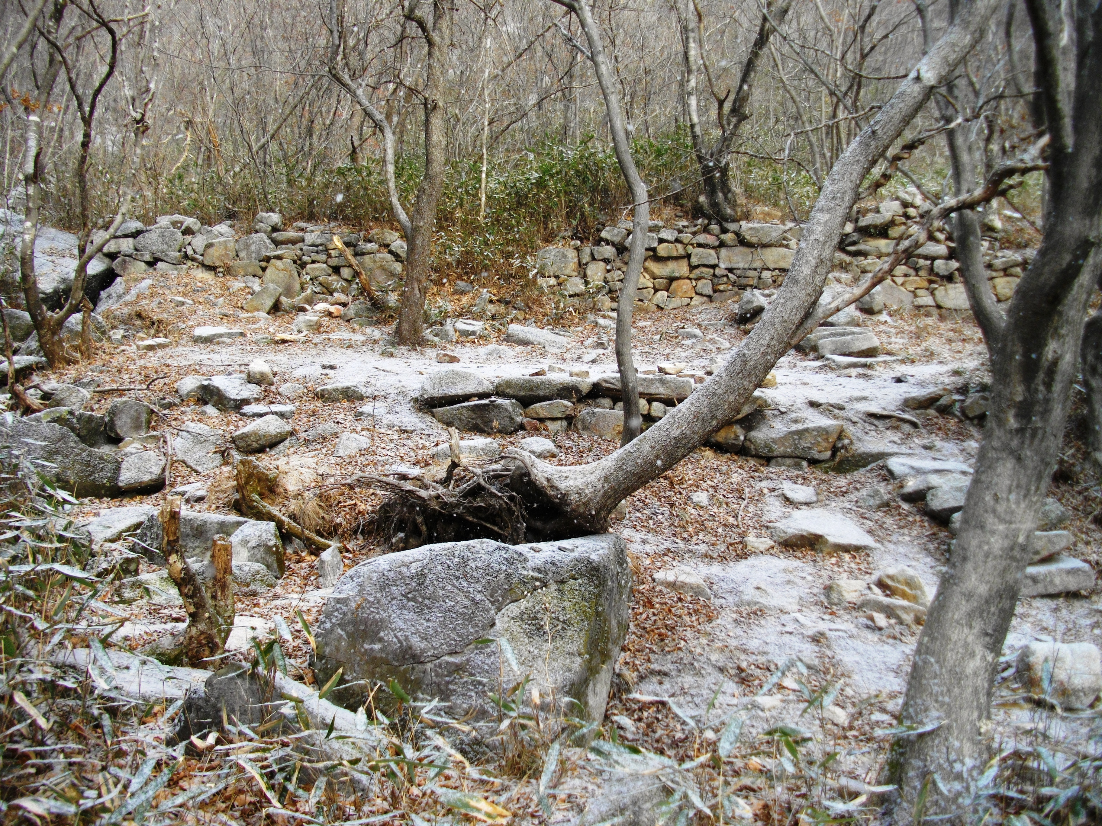 A ruin of a temple in Mount Gaya, South Korea.